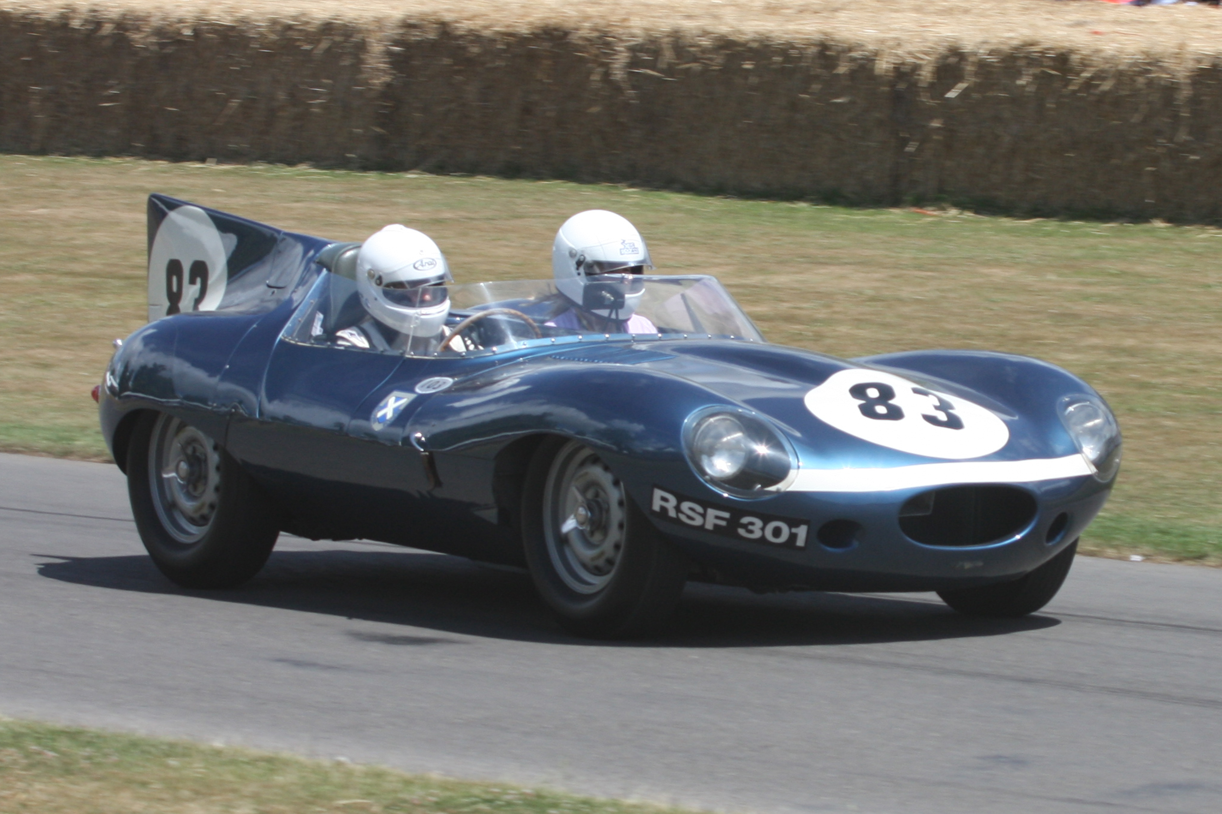 1956 Jaguar D-Type 'Long Nose'